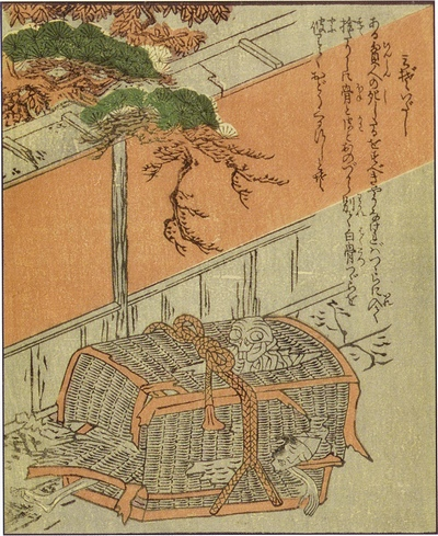 Mizoidashi (溝出) from the Ehon Hyaku monogatari (絵本百物語)